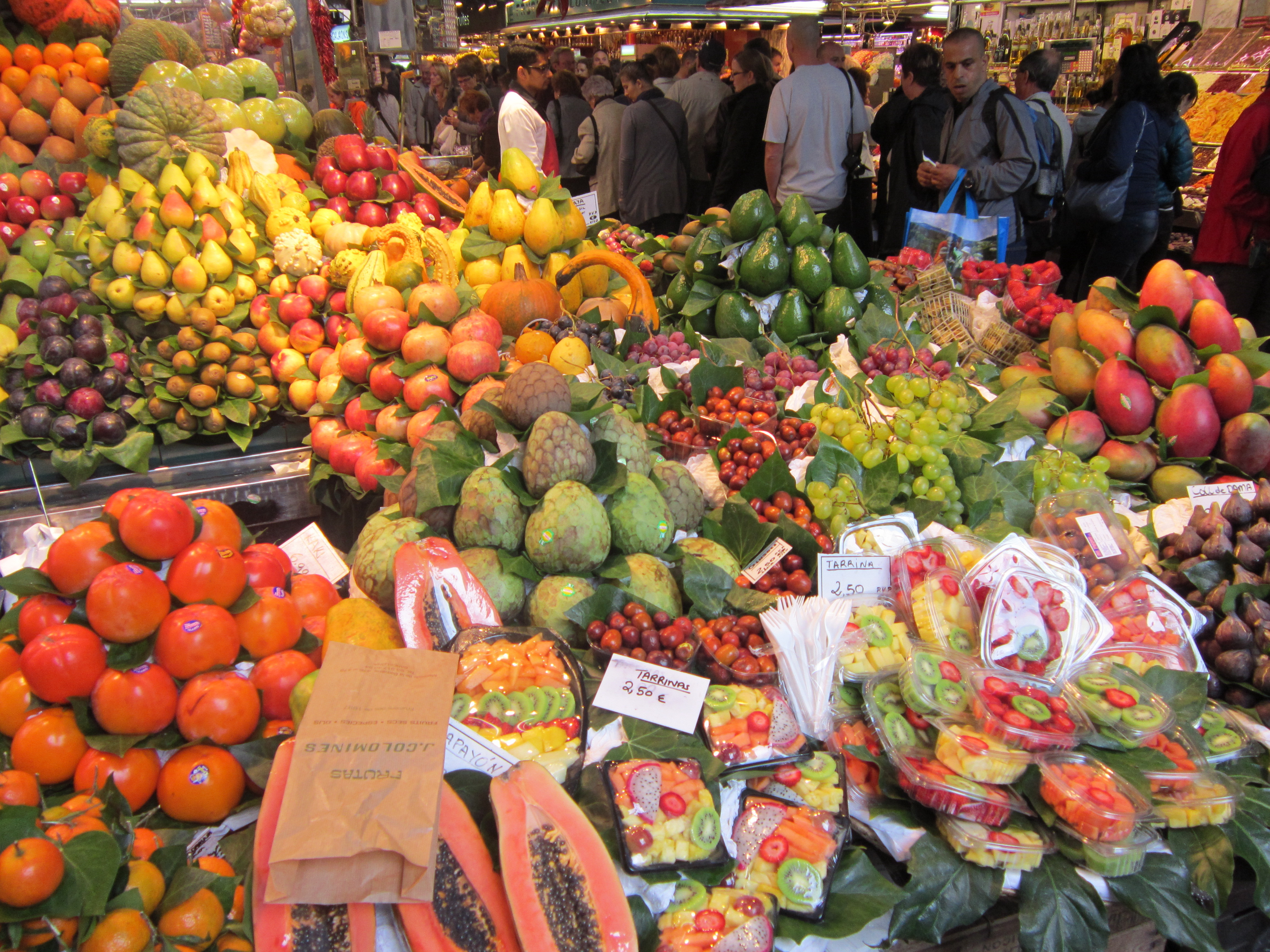 Image of fruits